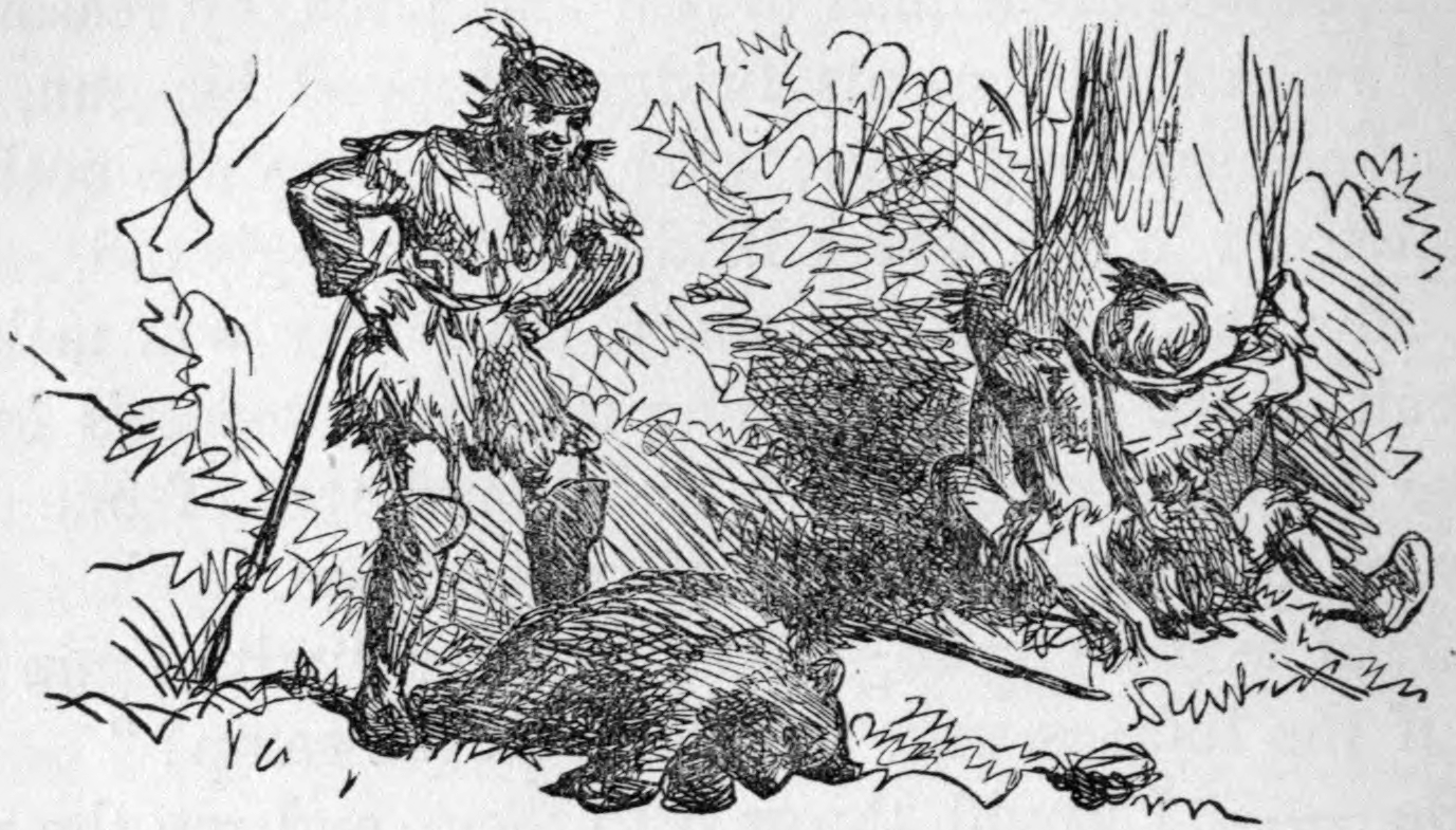 The Wrong End of the Tree from Eleven Years in the Rocky Mountains